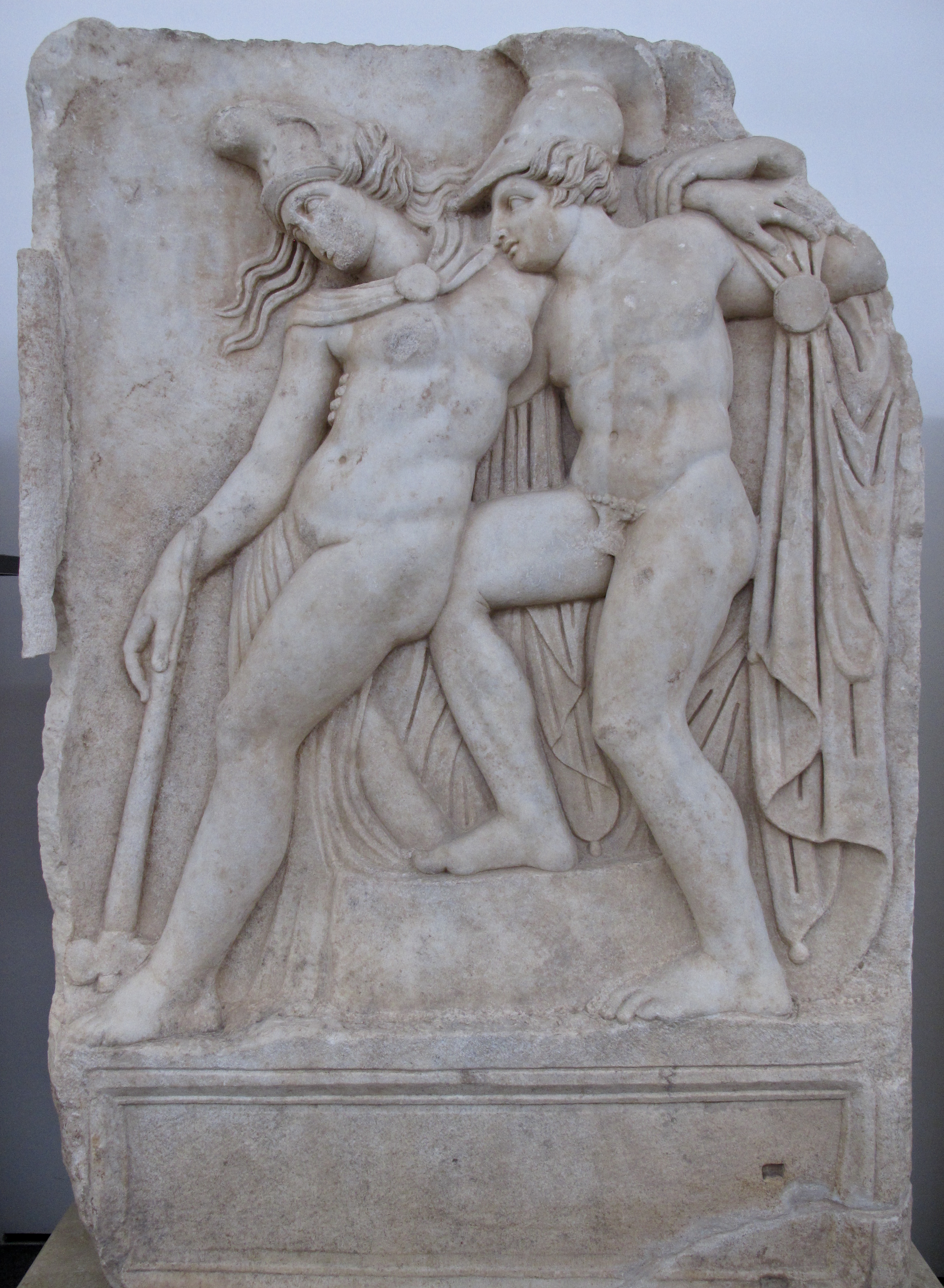 Achilles and Penthesilea. Achilles supports the slumping figure of the amazon queen Penthesilea, whom he has mortally wounded. Her double-headed axe slips from her hand. The queen had come to fight in the Trojan War against the invading Greeks. Between her being wounded and dying in his arms -the time represented here- Achilles fell in love with her.